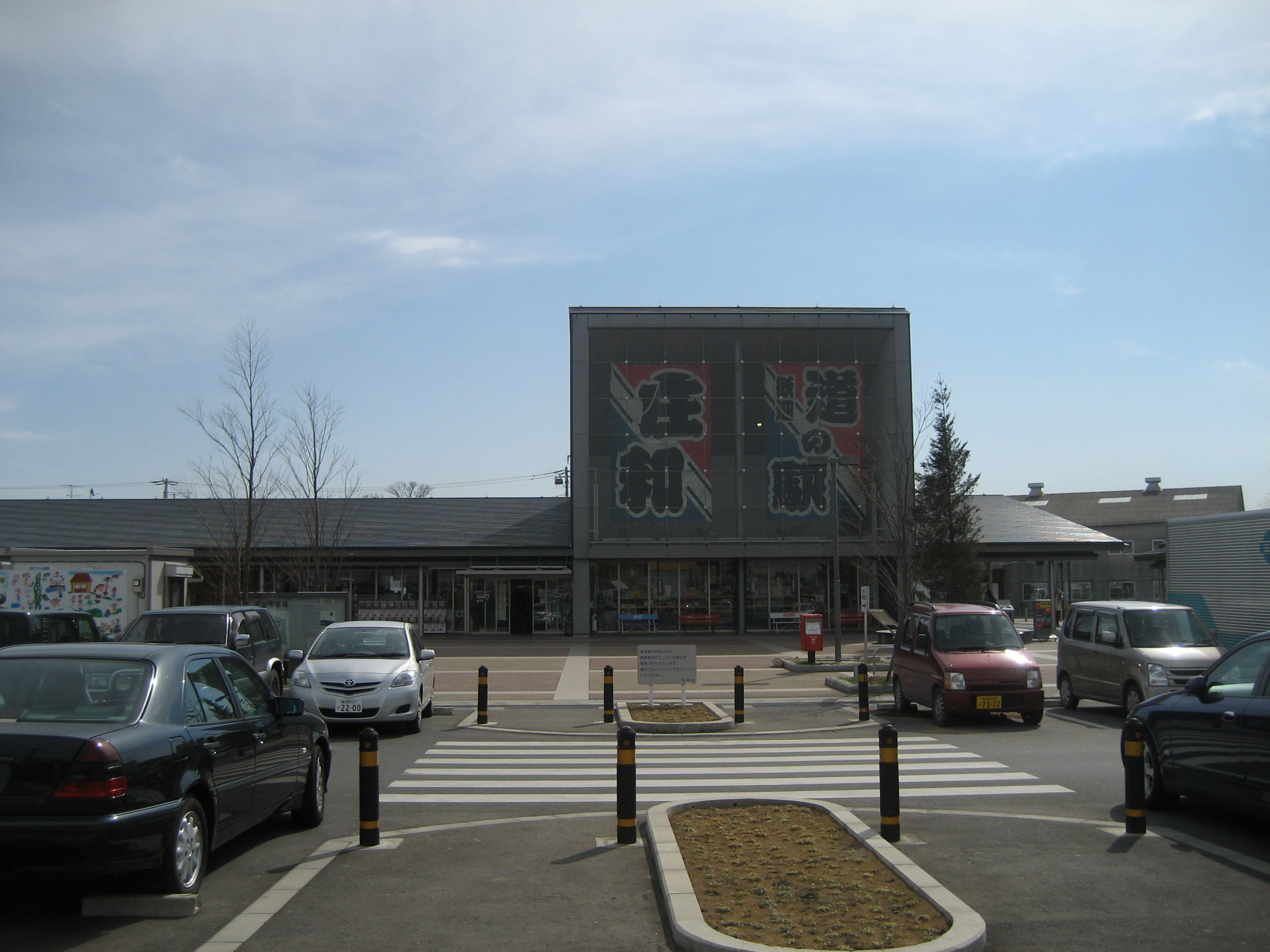 Michinoeki Showa